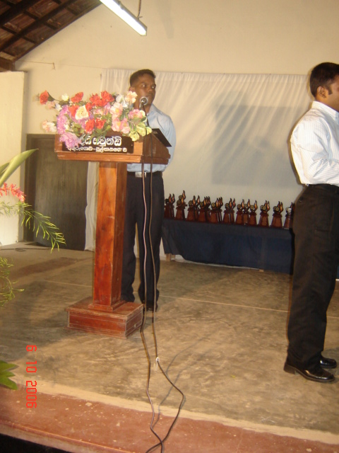 Begining Teacher Offering